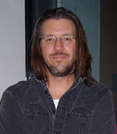 David Foster Wallace at the Hammer Museum in Los Angeles, January 2006. The head shot was cropped out from the original image with fans Claudia Sherman and Amanda Barnes.